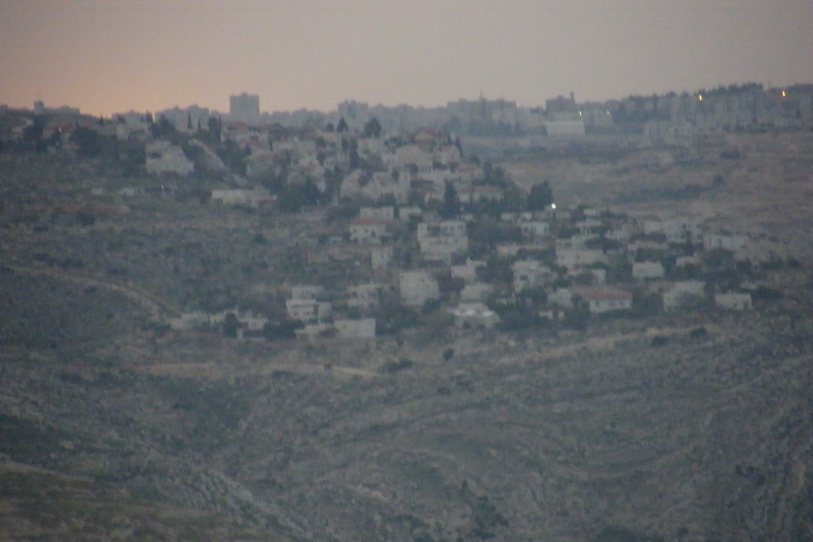 Almon from Kfar Adumim